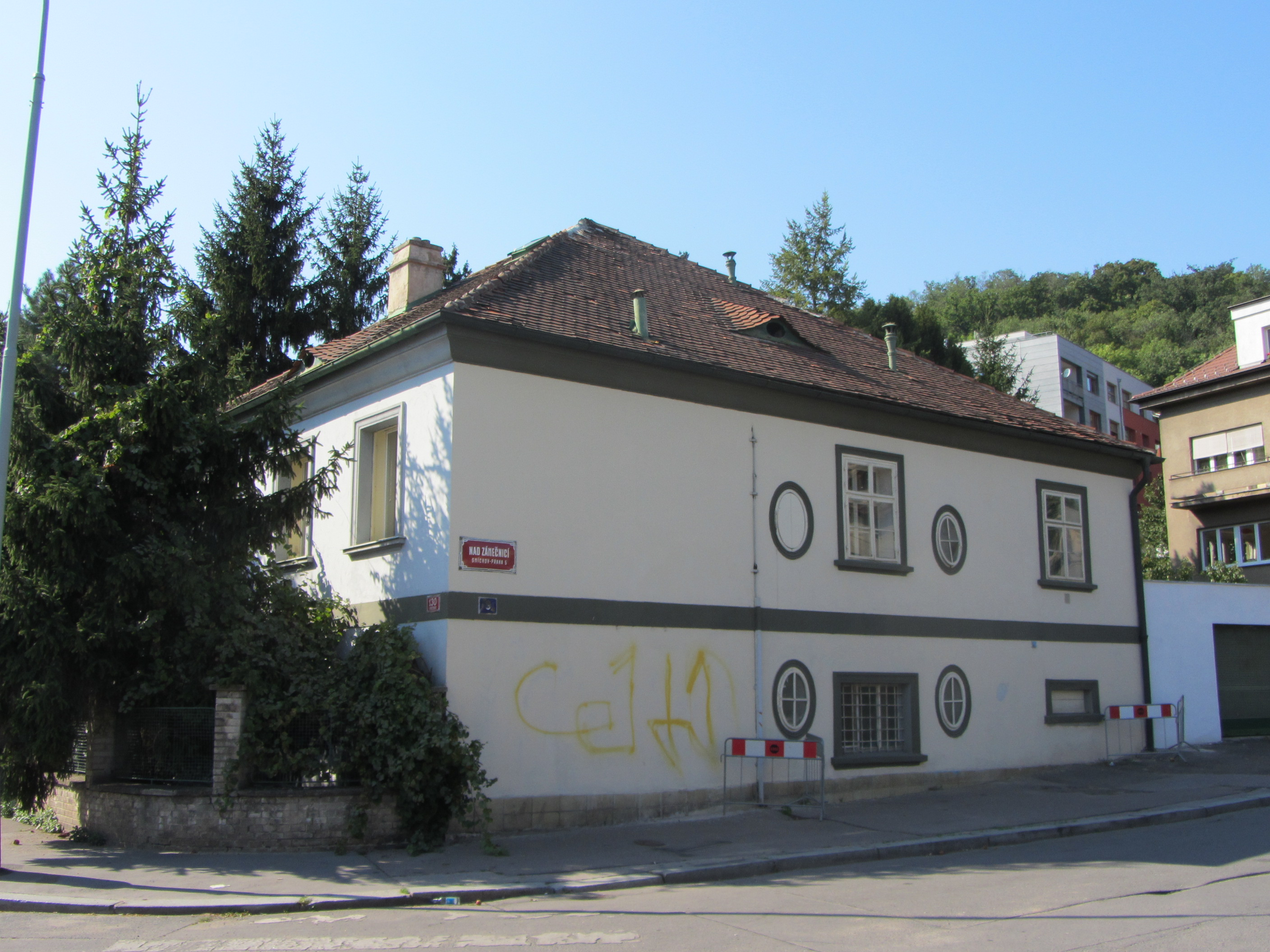 Former homestead Zámečnice, Prague